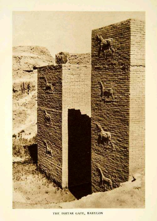 Ishtar Gate, babylon